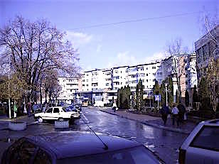 The city center of Drăgășani, Vâlcea County, Romania.